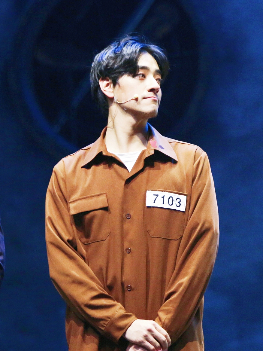 On April 20, 2019, Zheng Yunlong took part in the musical "Letter".